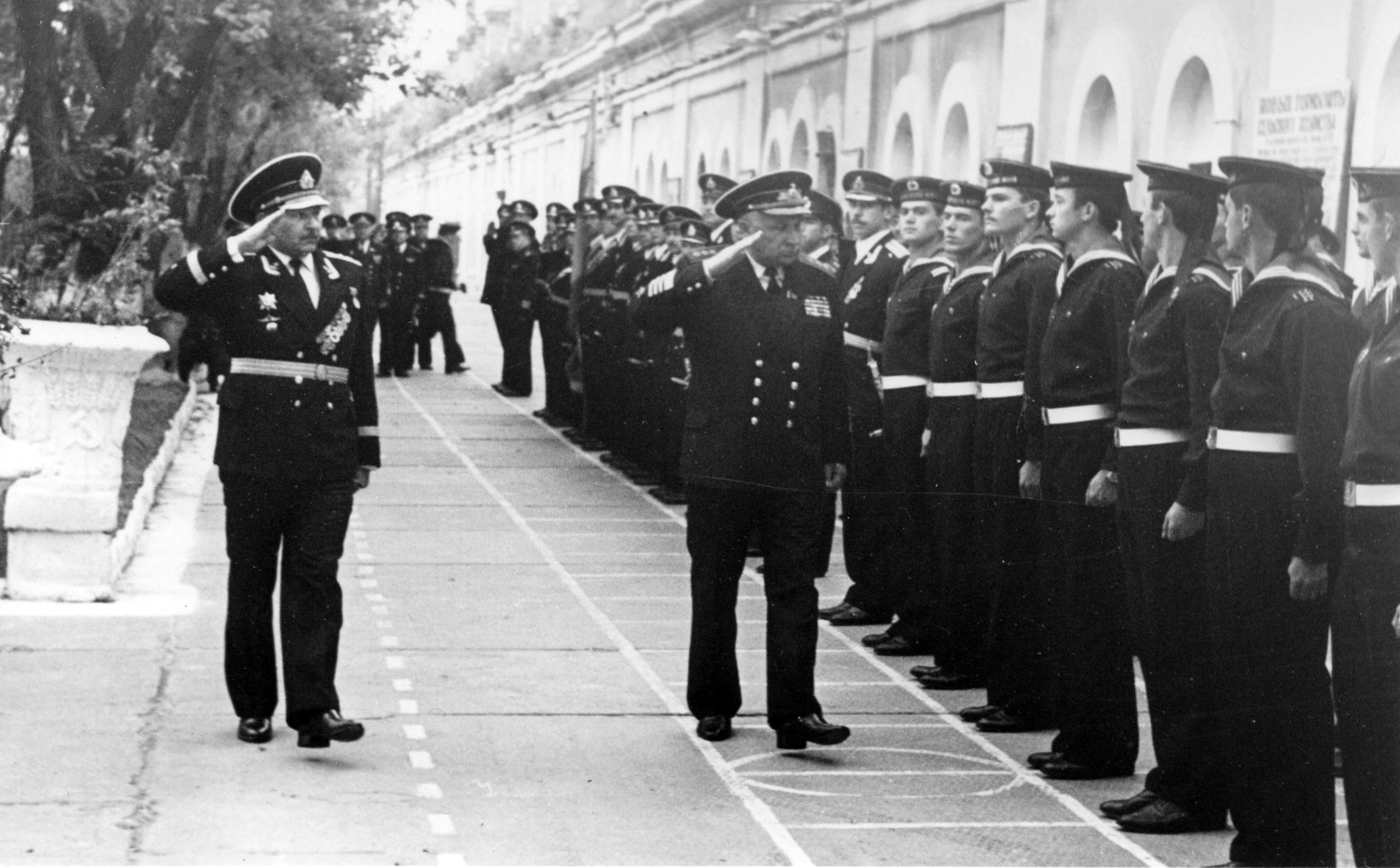 17th Brigade special operations forces of USSR Navy. Ochakov. Inspection of Staff of the Navy